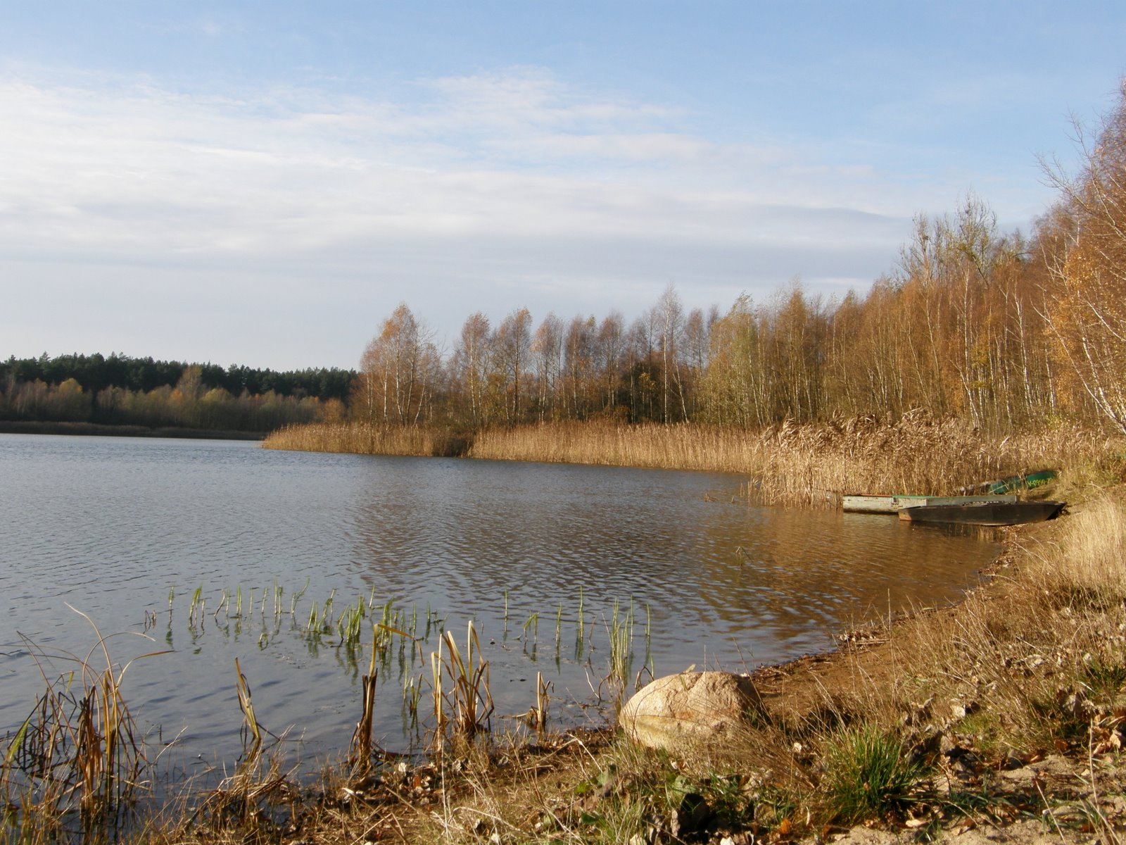 Kaminsko Lake